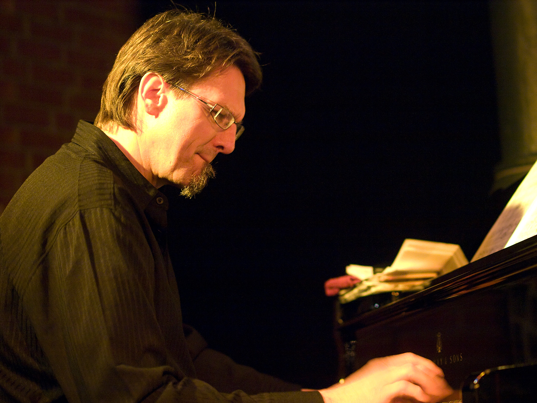 Peter Madsen, piano, picture taken in Jazz club "Unterfahrt" in Munich/Germany